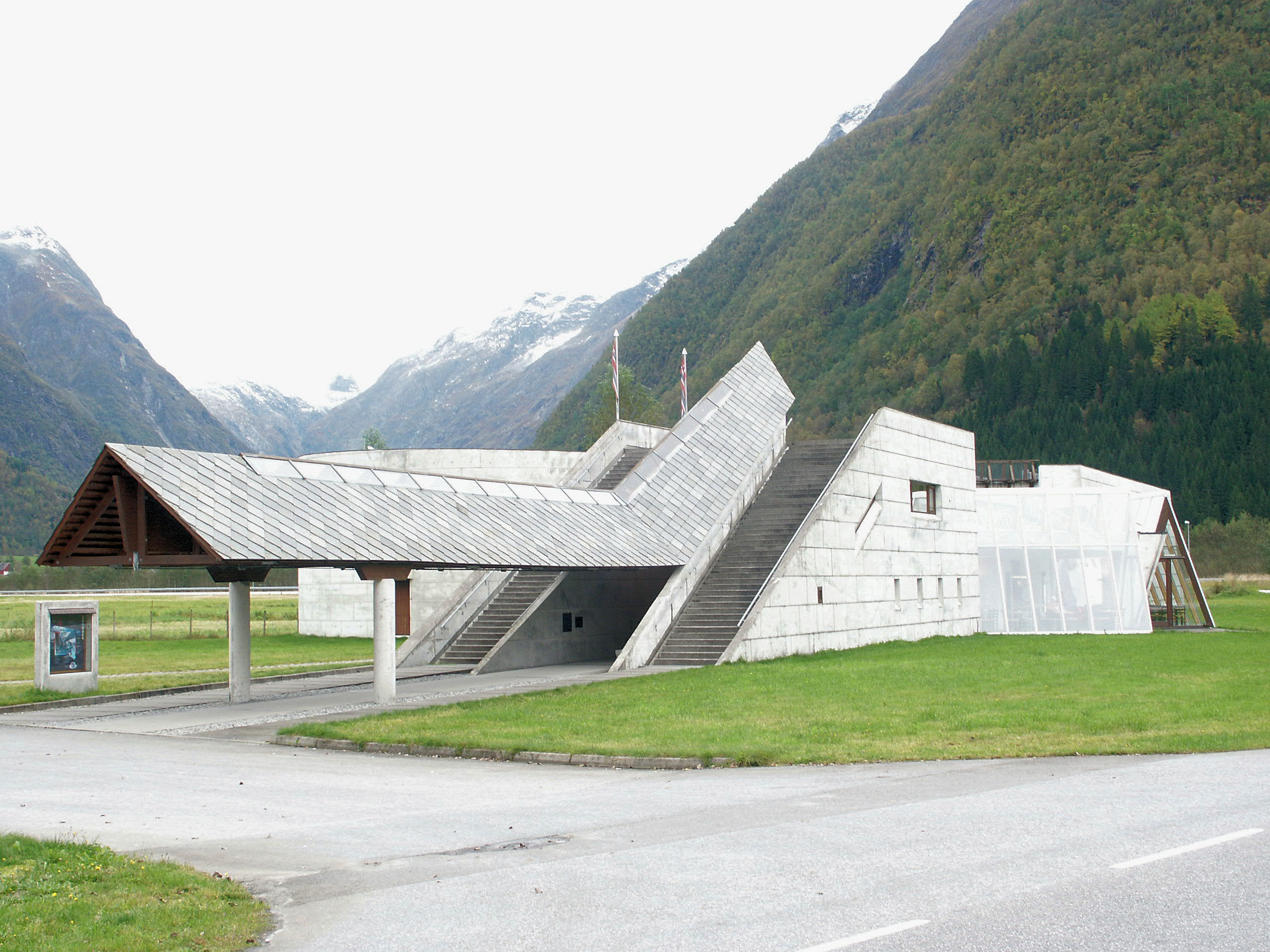 The glacier museum in Fjærland, Norway by architect Sverre Fehn.